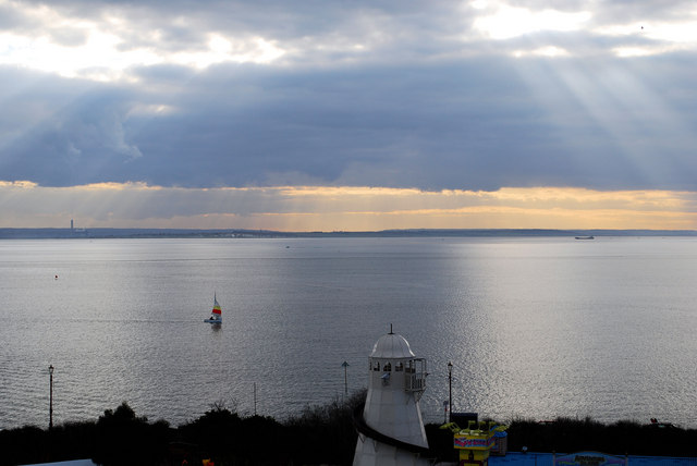 Thames Estuary View from top of lift.